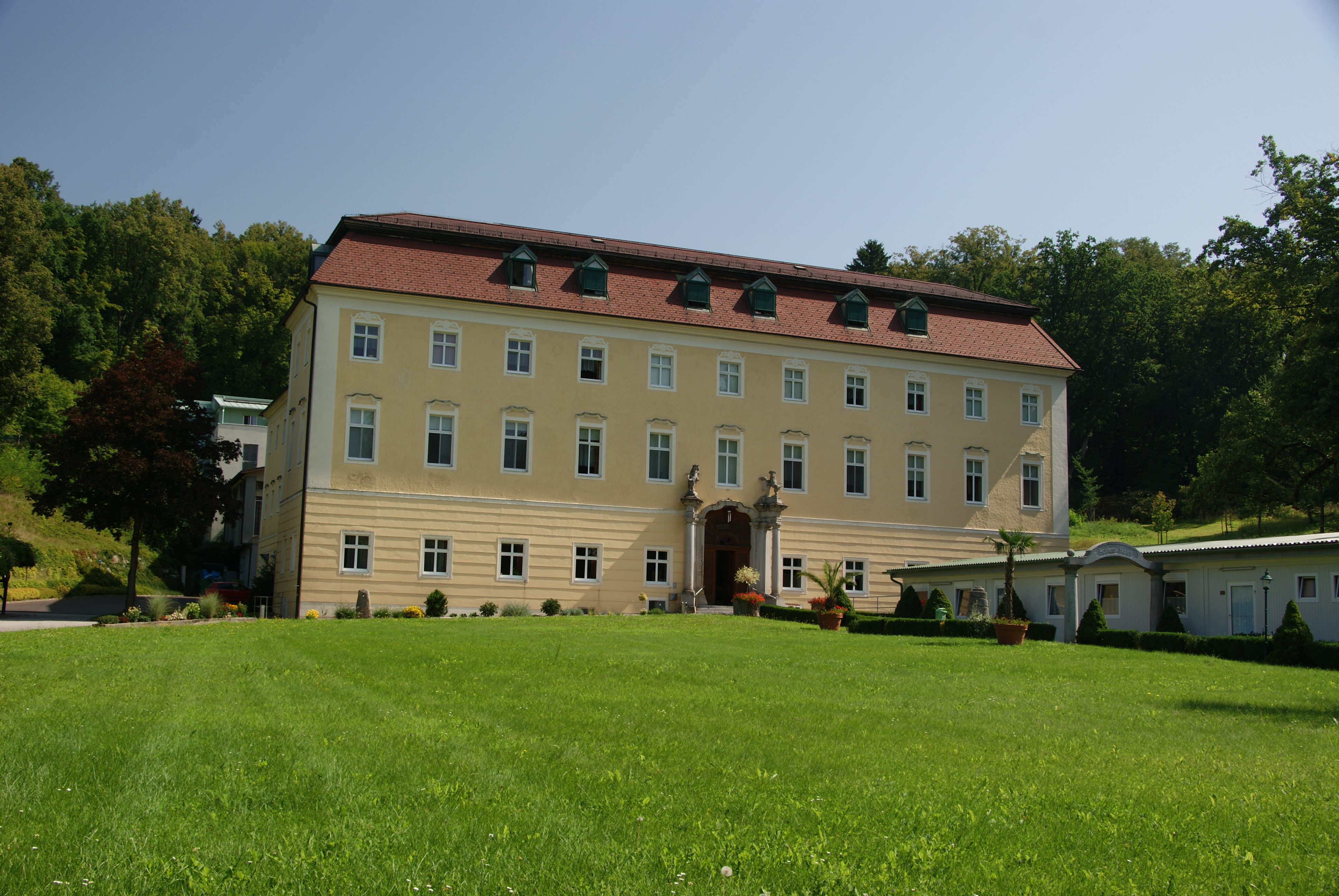 Schloss Haus, Wartberg ob der Aist, Upper Austria